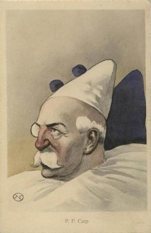 Nicolae Petrescu-Găină - Caricatura Petre P. Carp.